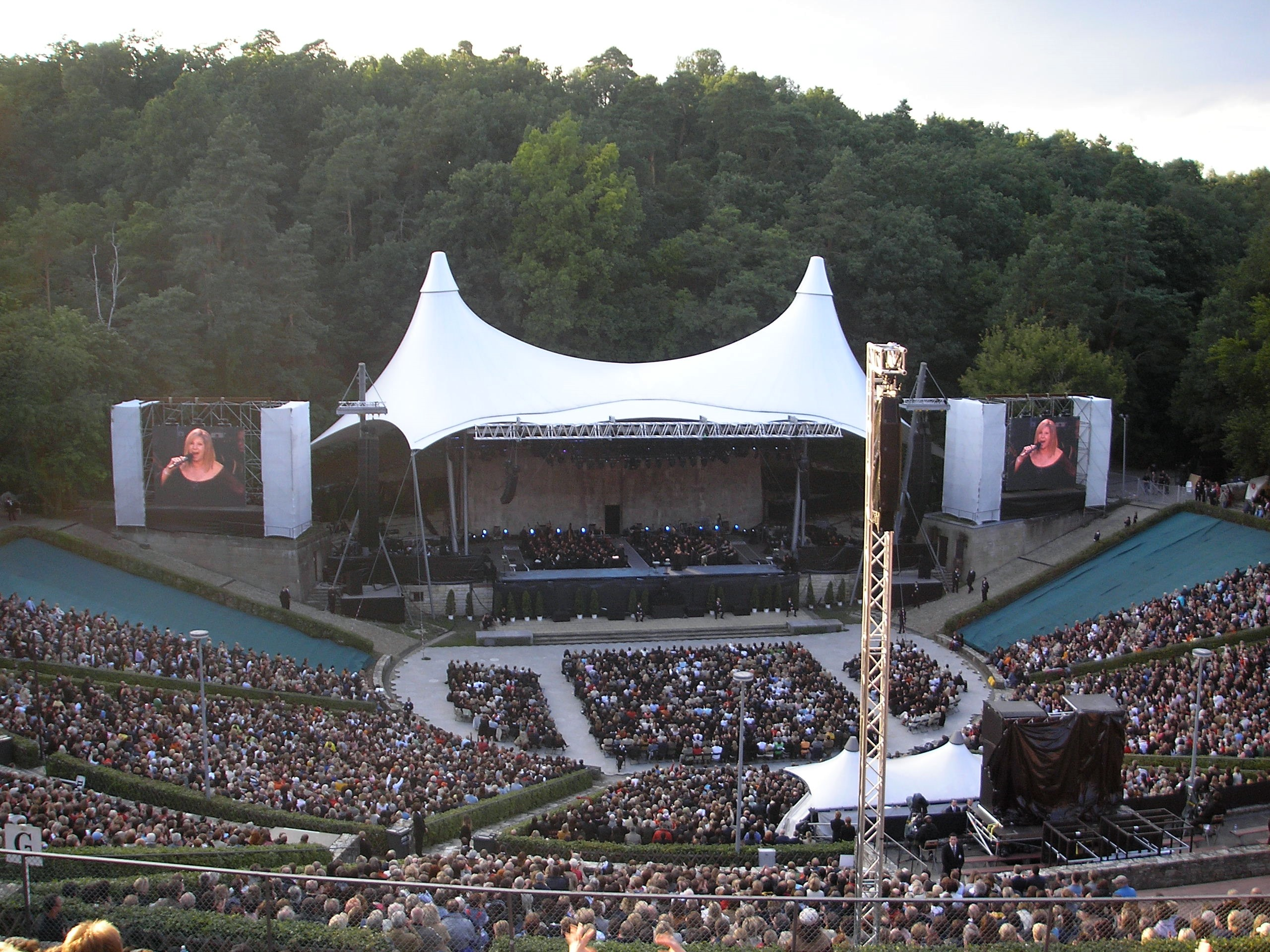 The Waldbühne in Berlin, during the 2007 summer concert of Barbra Streisand.